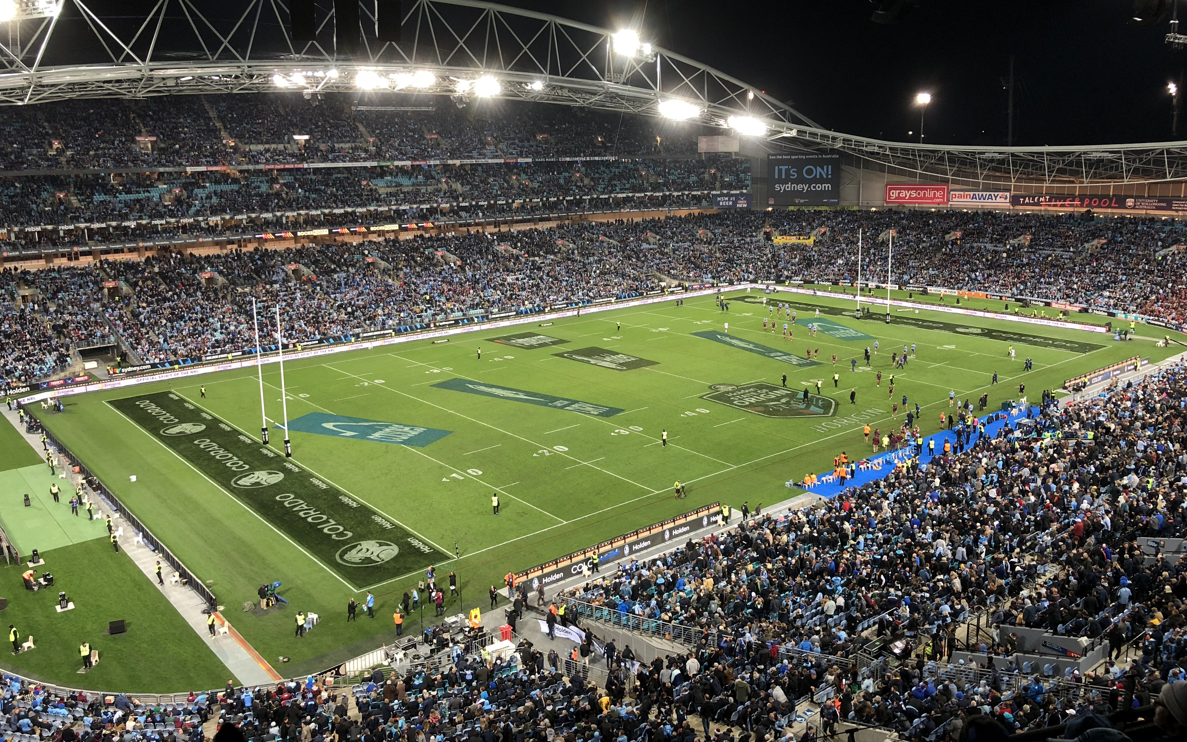 View of ANZ Stadium during State of Origin Game II 2018.